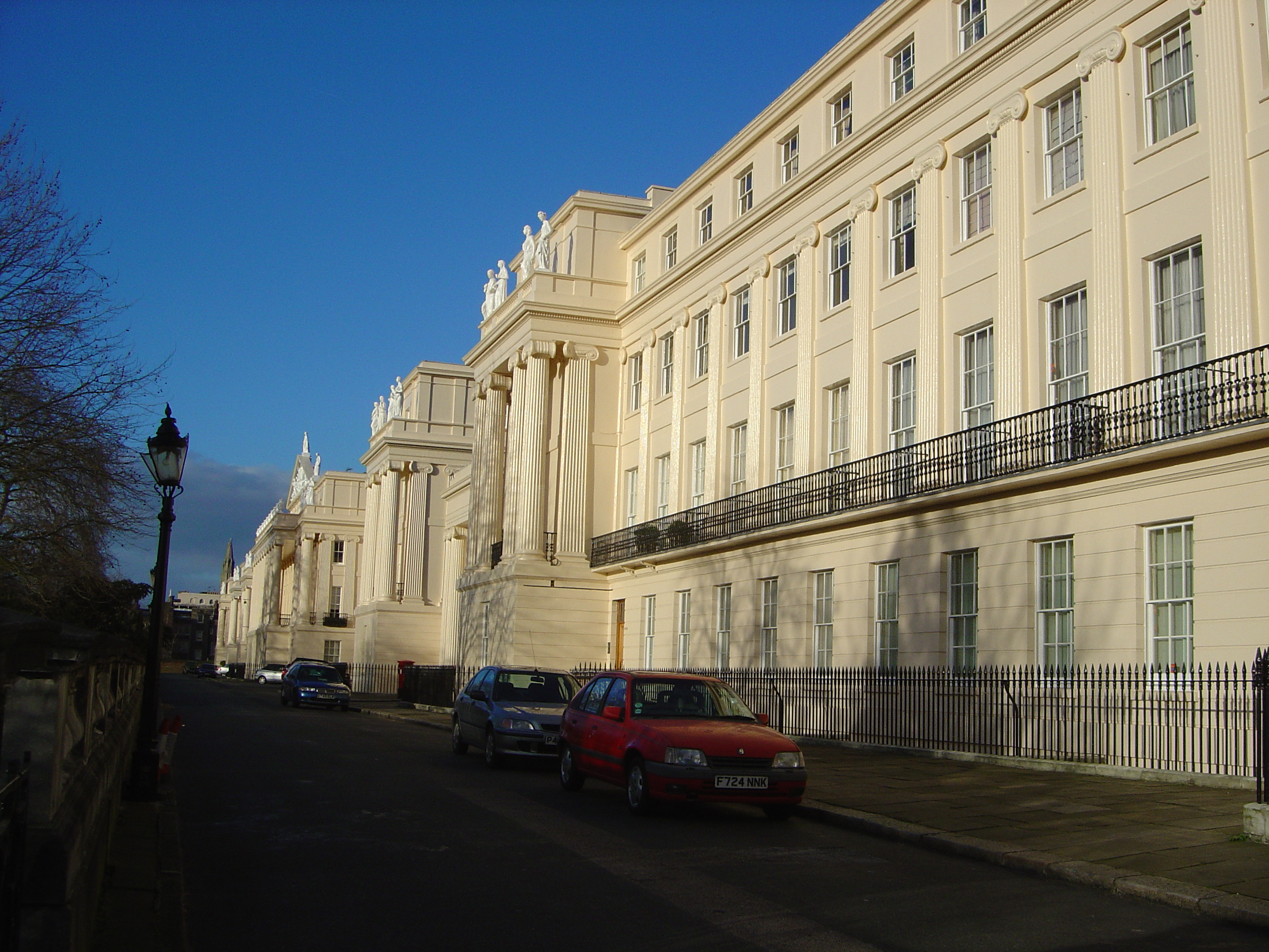 Cumberland_Terrace, Regent's Park London